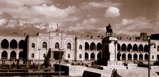 Tehran Shahrdari Building (Sakhteman Shahrdari), The City Palace (Emarate Baladieh) in Sepah Sq. (Toopkhaneh), Tehran in 1950s